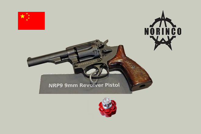 picture